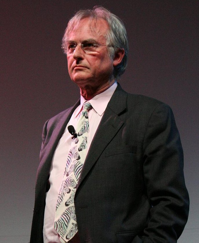 Dawkins at the University of Texas at Austin.